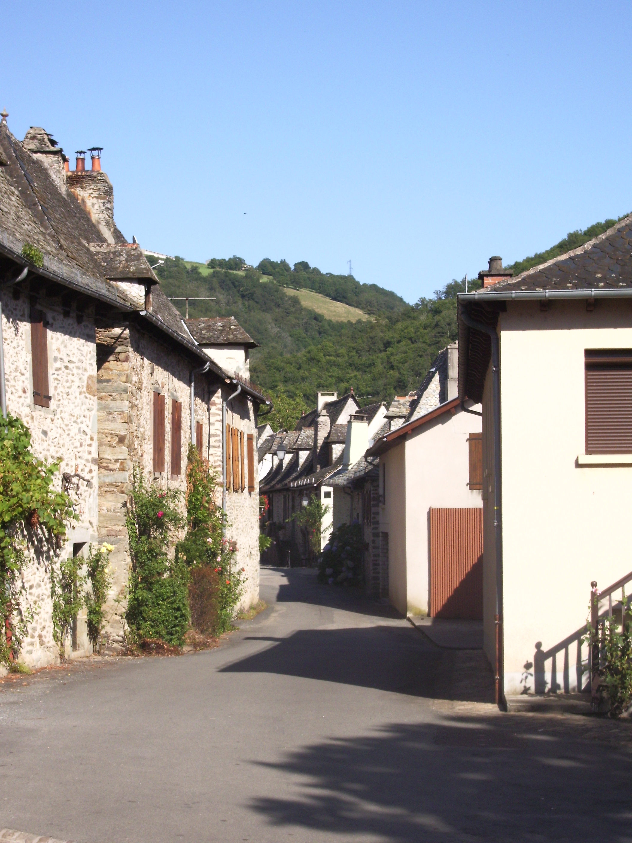 Main street of Saint-Parthem, a small village in France